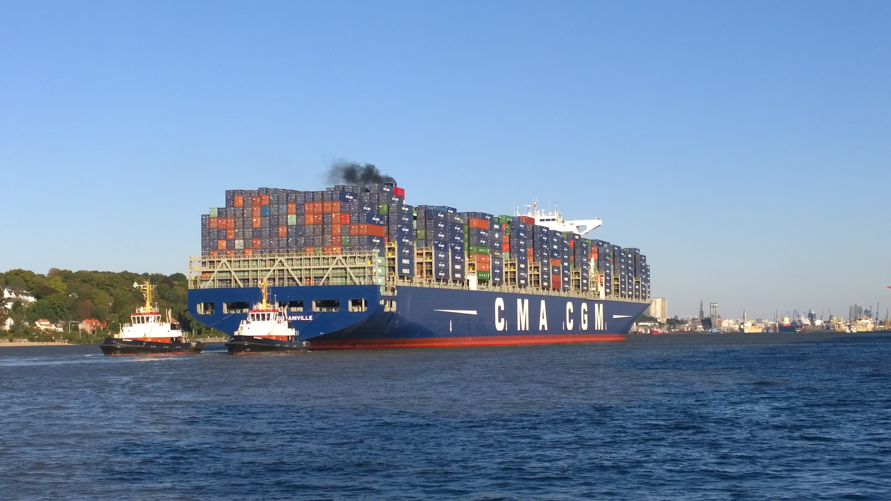 Container ship CMA CGM Bougainville off the port of Hamburg in October 2015